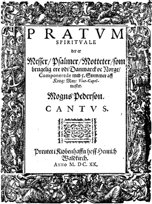 Cover of musical work Pratum Spirituale by Danish composer Mogens Pedersøn 1620